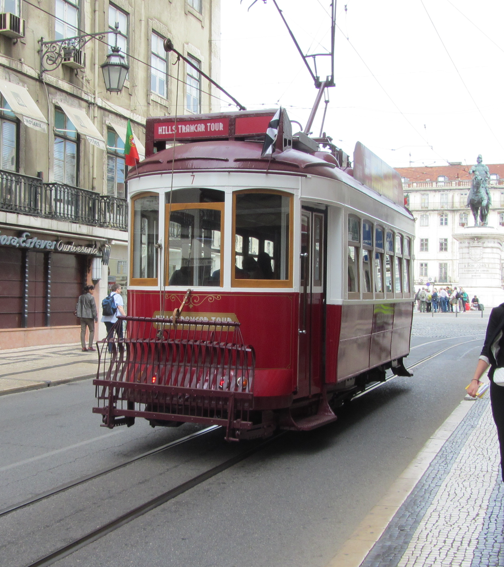 Trams in Lisbon